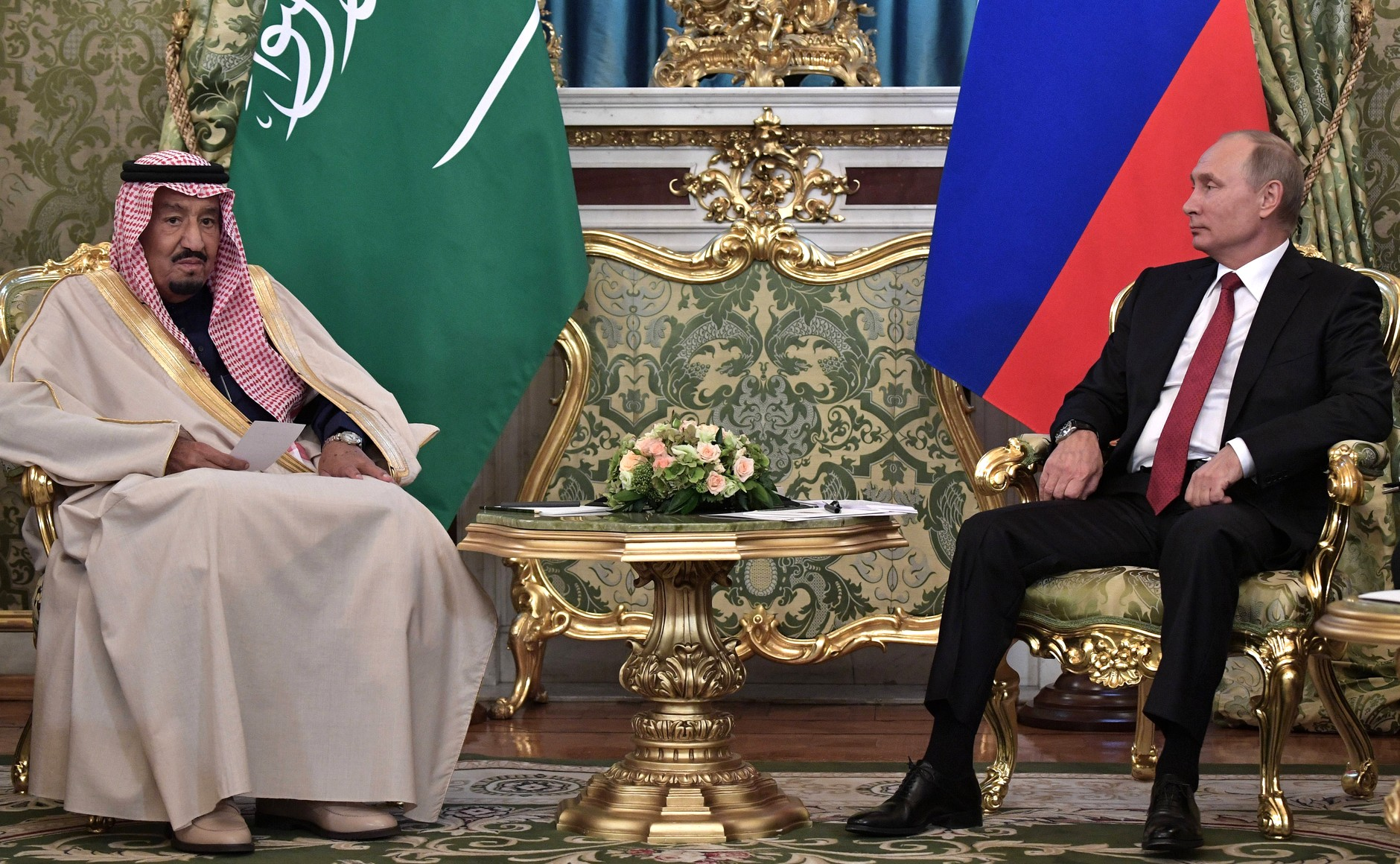 Russian President Vladimir Putin and the King of Saudi Arabia Salmán bin Abdulaziz in the Kremlin, 2017.